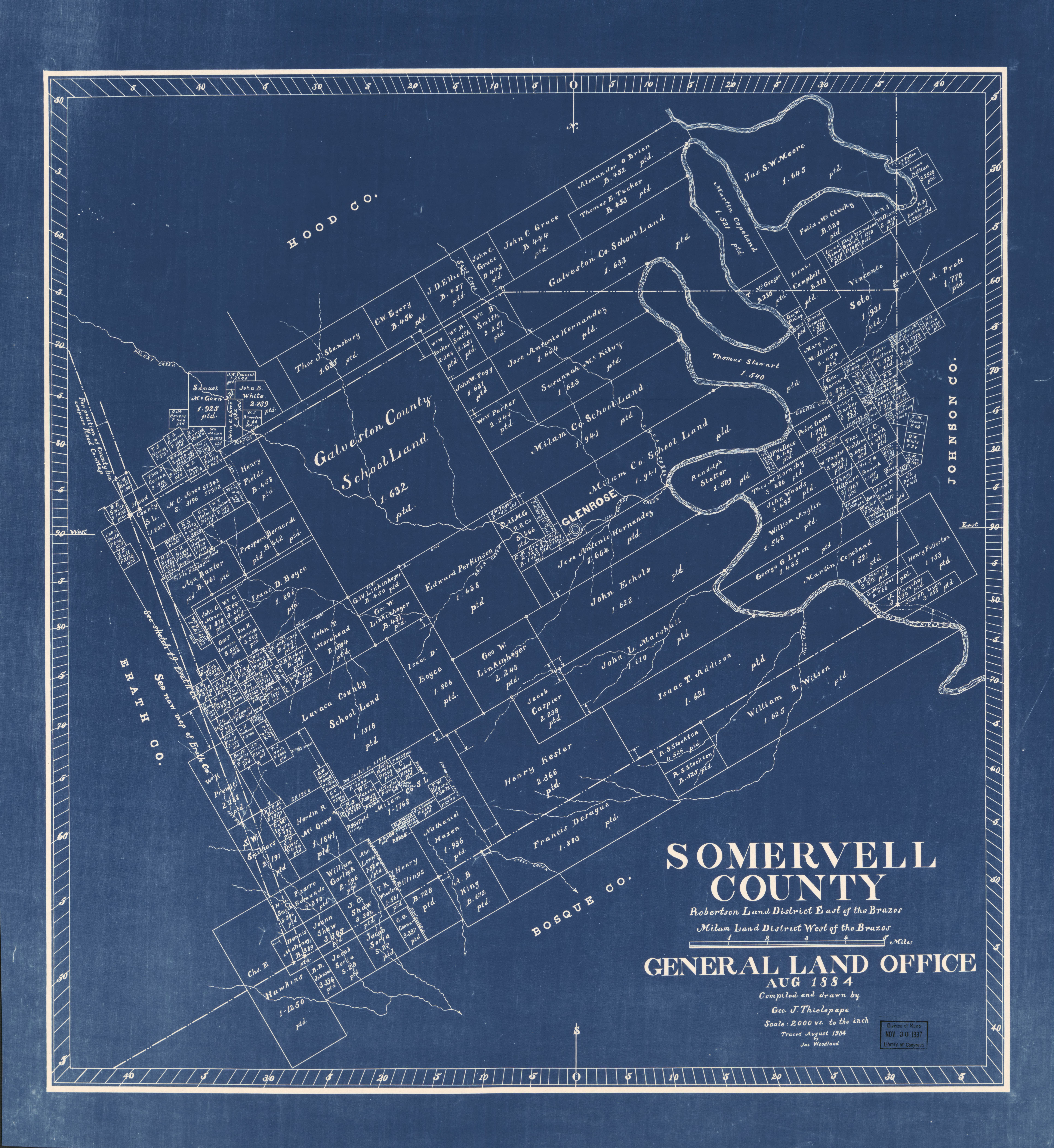 Blueprint Shows land ownership. "General Land Office, Aug 1884." "Traced August 1934 by Jas. Woodland." LC Land ownership maps, 1129 Available also through the Library of Congress Web site as a raster image.